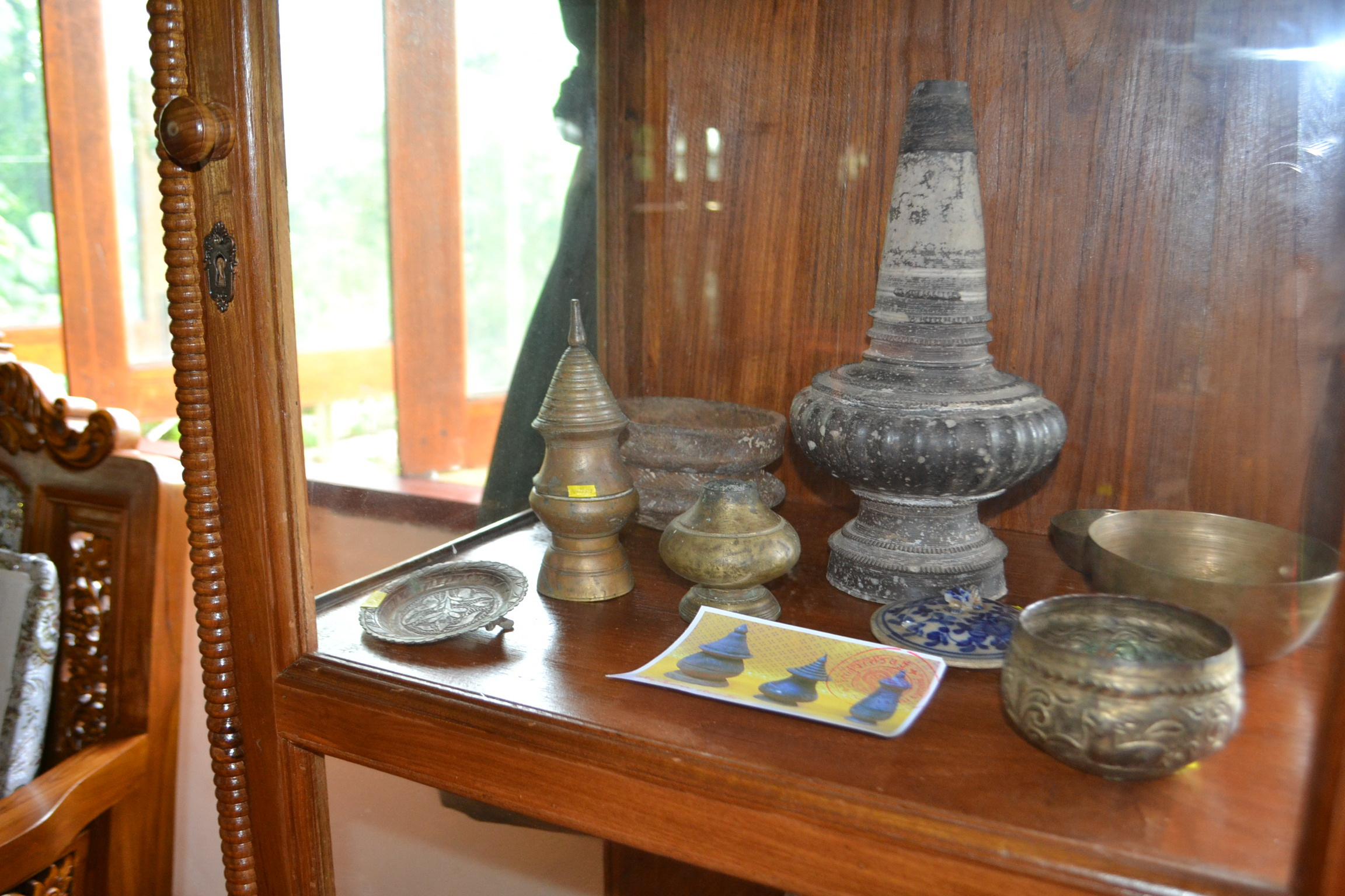 Wat Kungtapao Local Museum. at Wat Khung Taphao, Ban Khung Taphao, Khung Taphao subdistrict, Mueang Uttaradit, Uttaradit Province, Thailand.) on December 2, 2012.